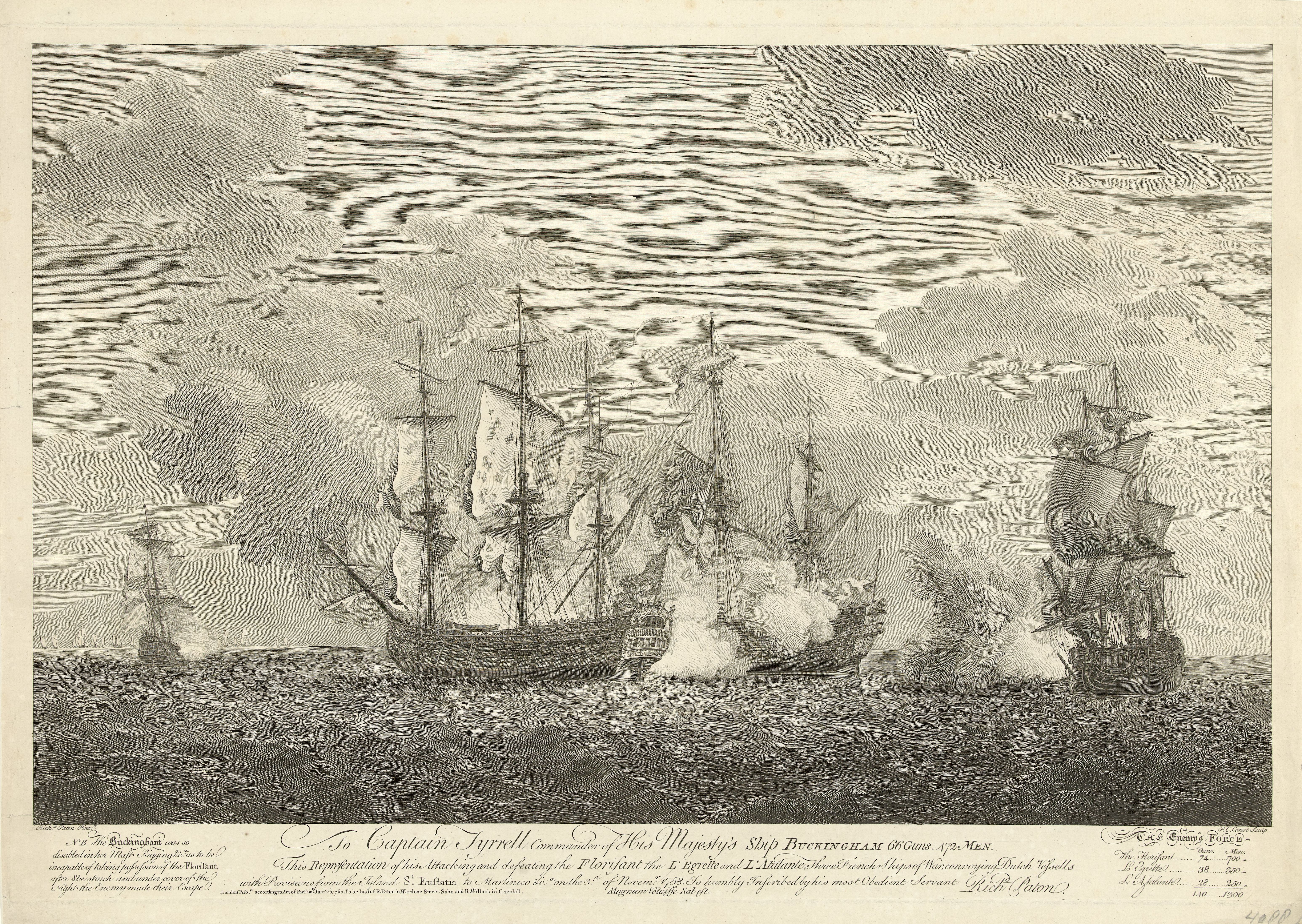 Attack of an English ship on three French ships near St. Eustatius, 1758 Attack and victory of the English warship Buckingham under the command of Captain Richard Tyrrell on the Florissant and two other French ships that accompany a convoy of Dutch ships en route from St. Eustatius to St. Maarten, November 3, 1758. In the caption the order to the English captain and details about the French ships. An English warship, the Buckingham under the command of Captain Richard Tyrrell near St. Eustatius, on 3 November 1758, attacked and claimed victory over the Florissant and two other French ships that accompanied a convoy of Dutch ships en route from St. Eustatius to St. Maarten.